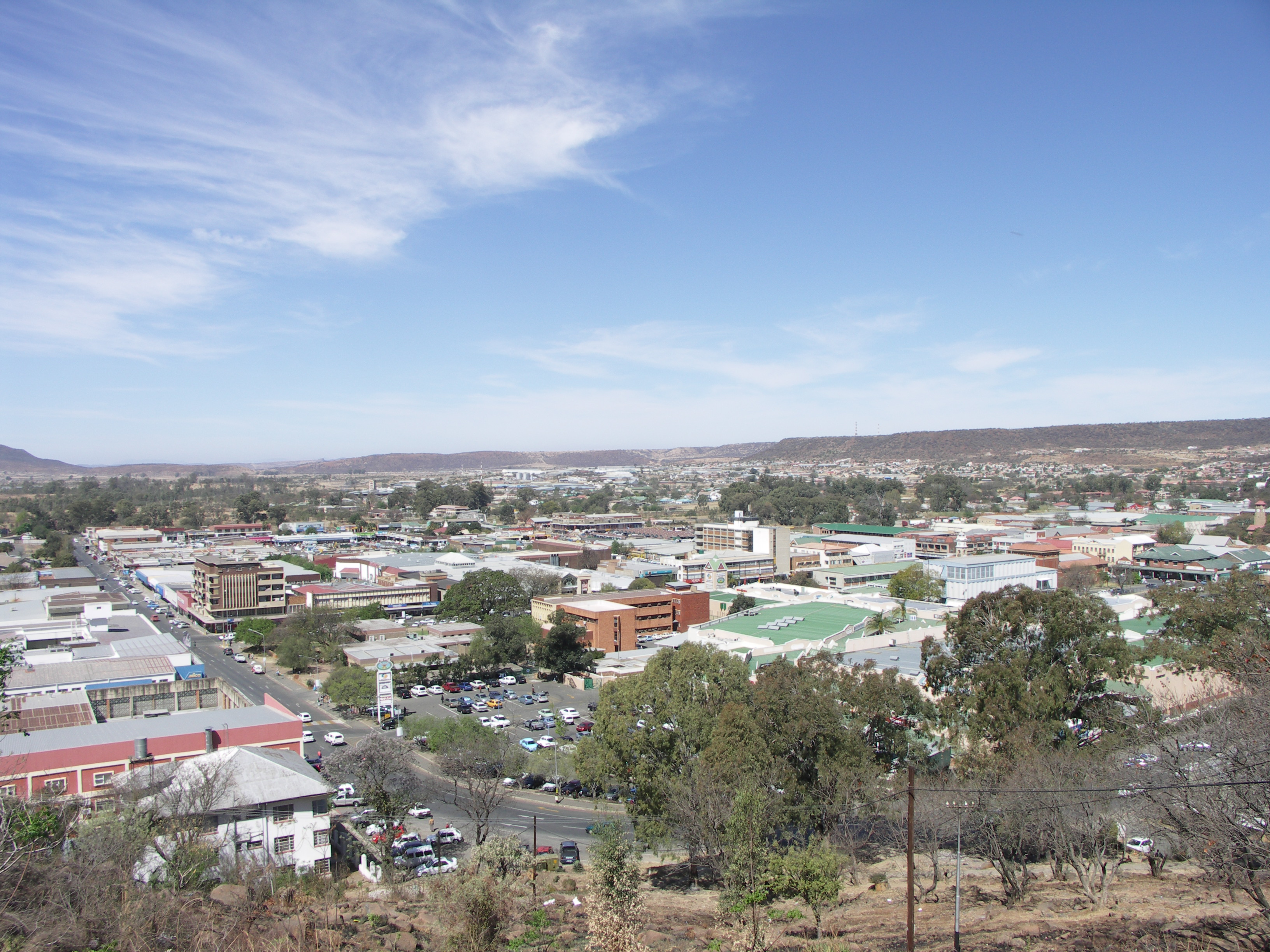 Ladysmith central business district